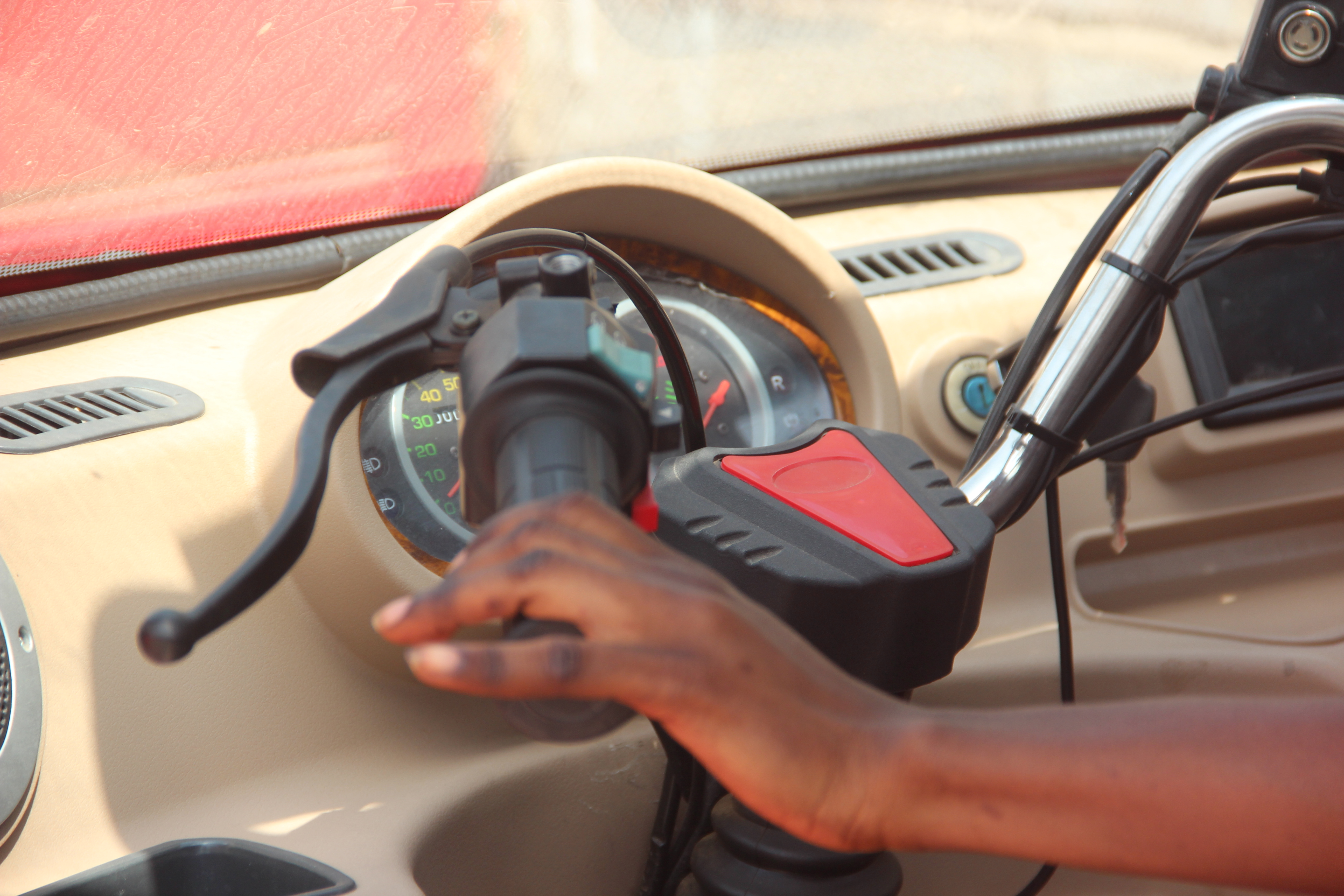 This is an image with the theme "Africa on the Move or Transport" from: Senegal